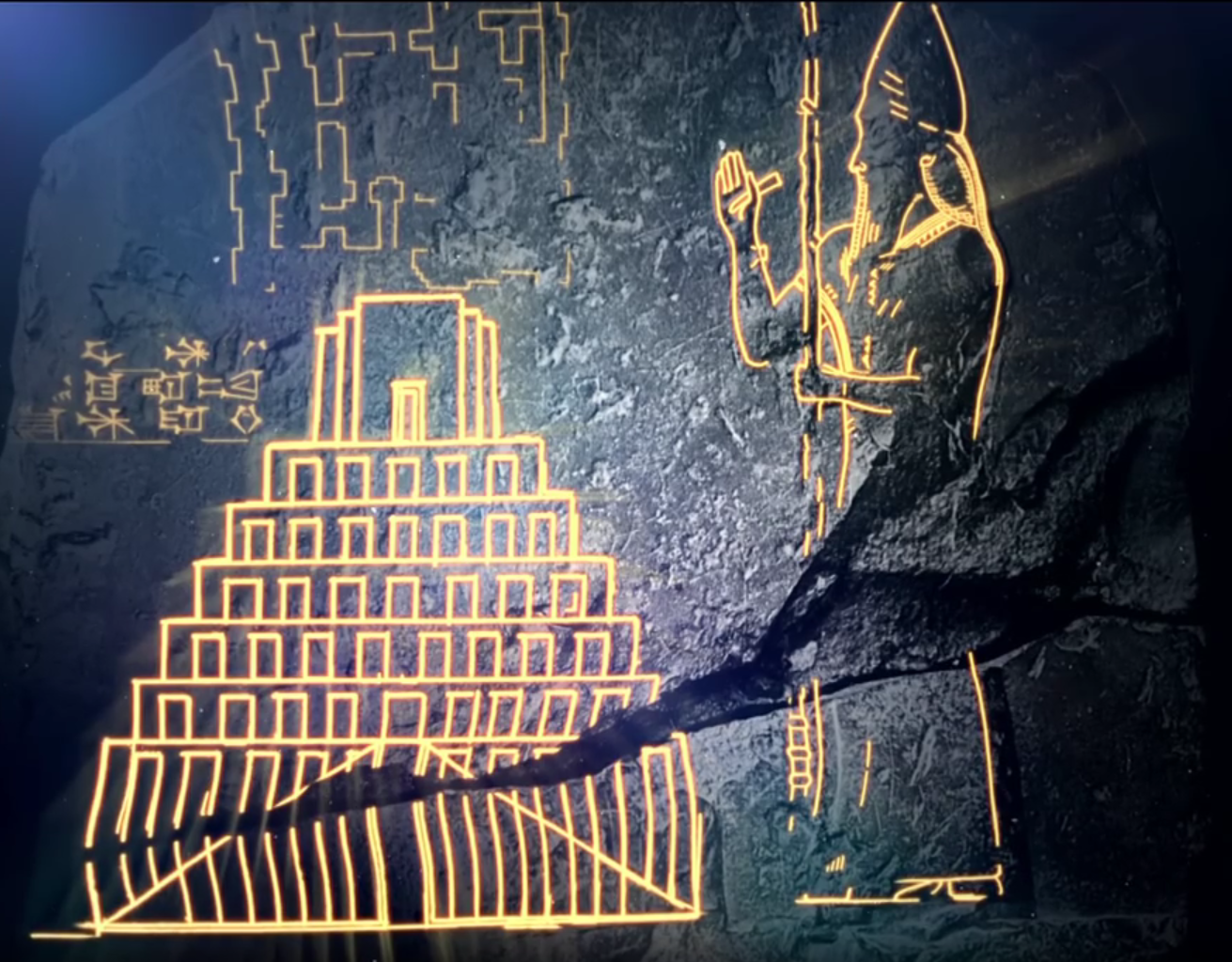 Etemenanki Babylon (3)